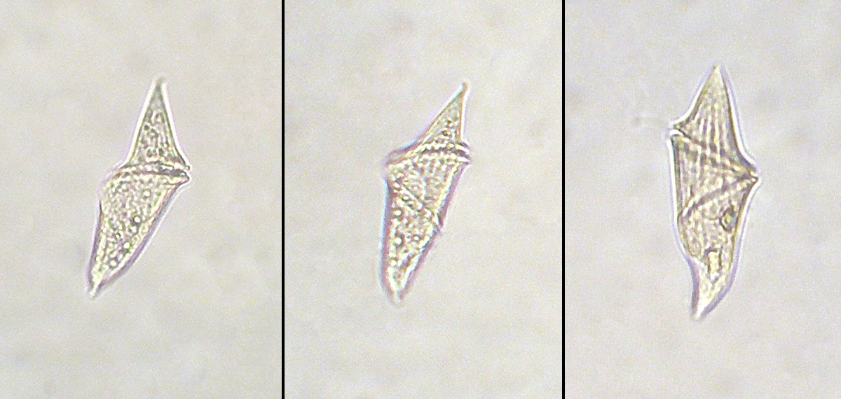 North-West Black Sea, coastal waters, at a depth of 0.5 metre